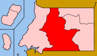 Map of Equatorial Guinea showing Centro Sur province.